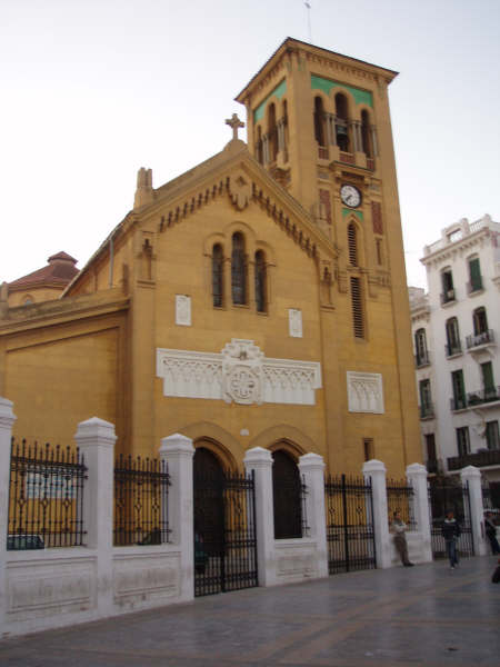 Church of Nuestra Señora de la Victoria in Tetouan city center, Morocco